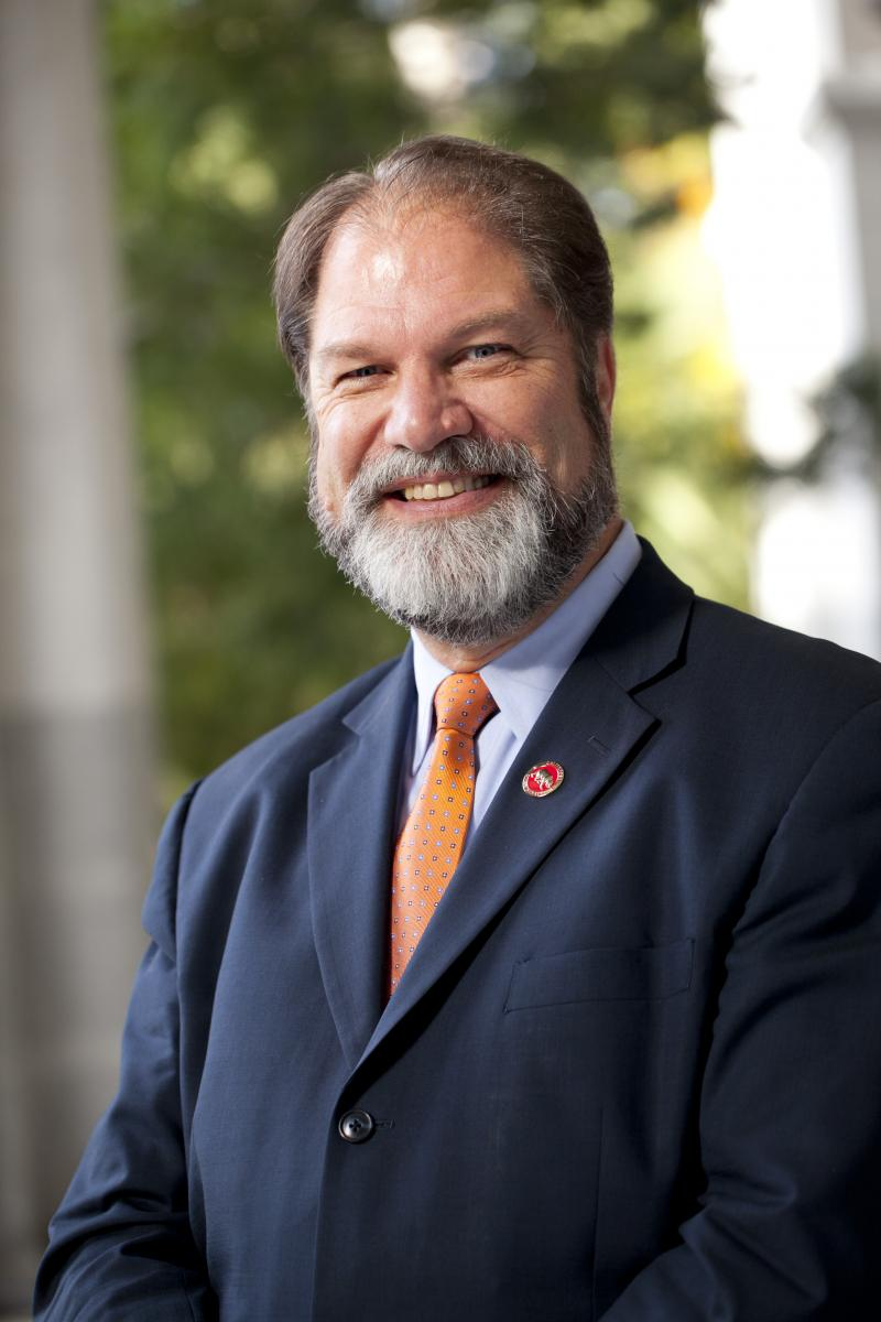 John Moorlach, California State Senator